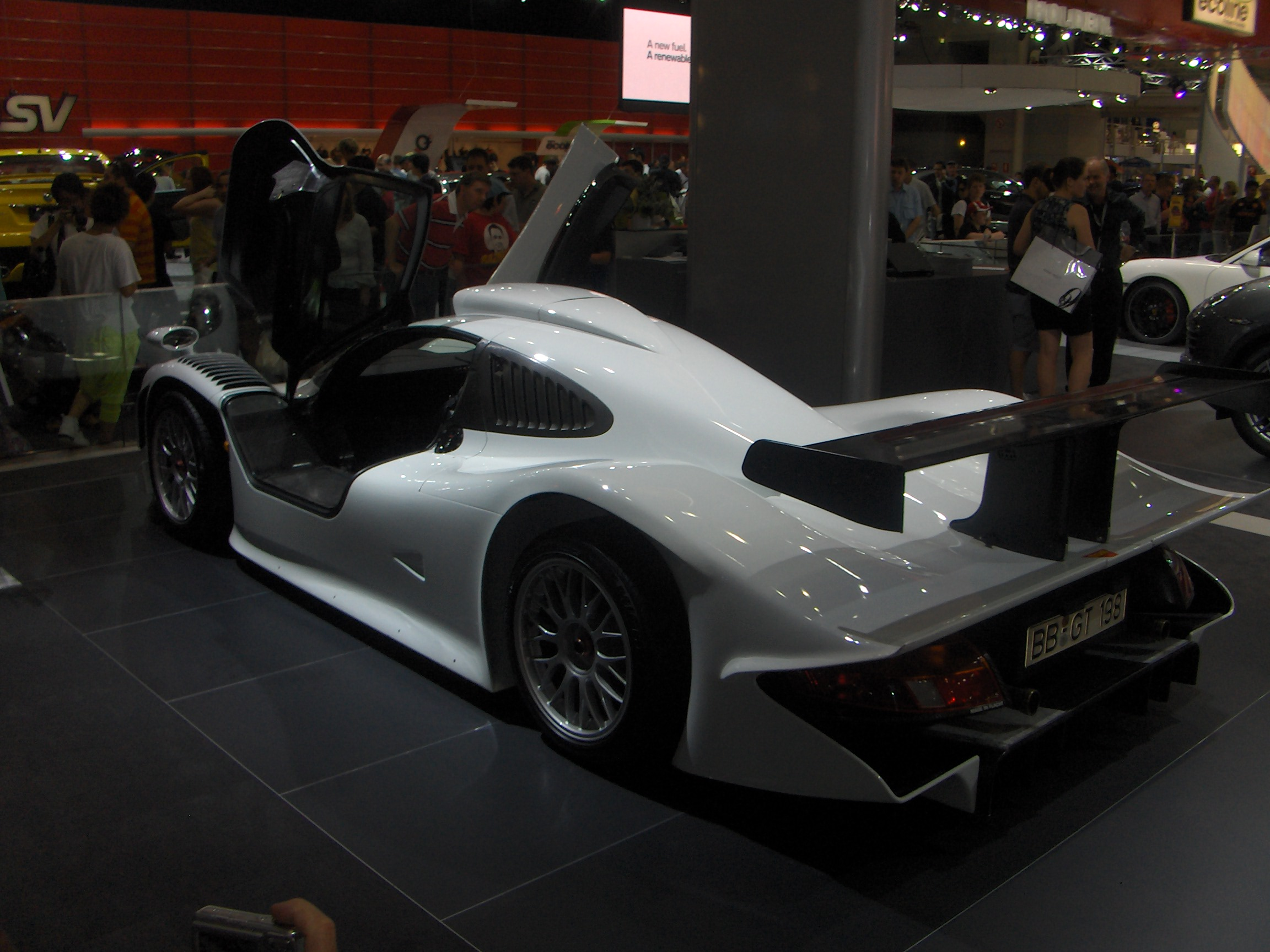 A Porsche 911 GT1 at the 2010 AIMS.